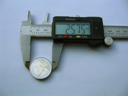 A digital caliper measuring a 2 euros coin Christophe Cattelain, Liege, Belgium, mars 2006.